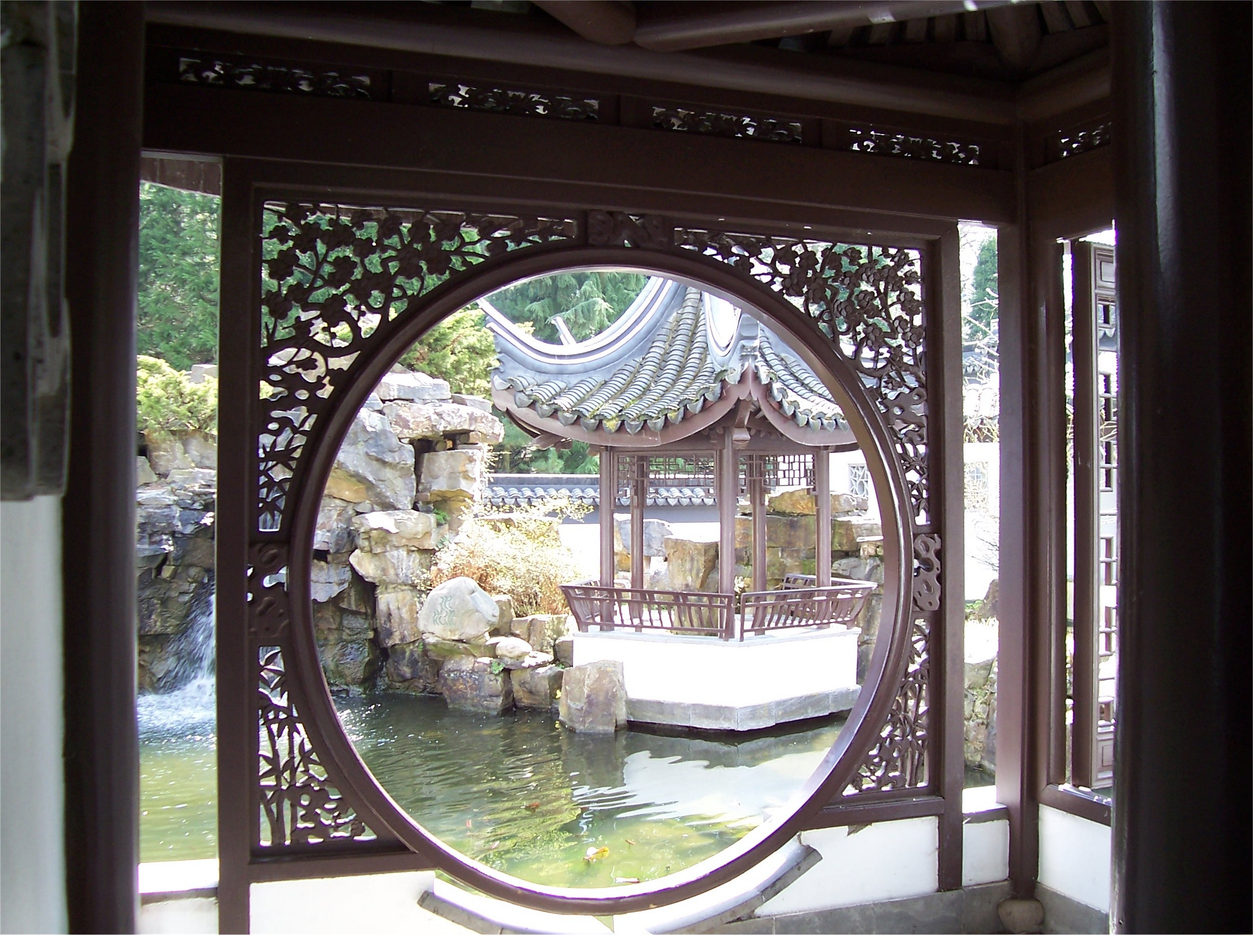 Qian Yuan - the garden of poets and philosopher There are basically two fundamentel styles of garden systems in China. The northern or imperial style means large extents, Marmor, precious materials and multicolored glazed roofing tiles. On the other hand the south chinese style is for simple materials such as natural stone, wood and unicolored bricks as well as for simple colours. This garden style is preferred by high officials, scholars and artists. The chinese garden in Bochum is the only garden in the south chinese style in Germany. The garden was built with support of the Tongji-University of Shanghai.